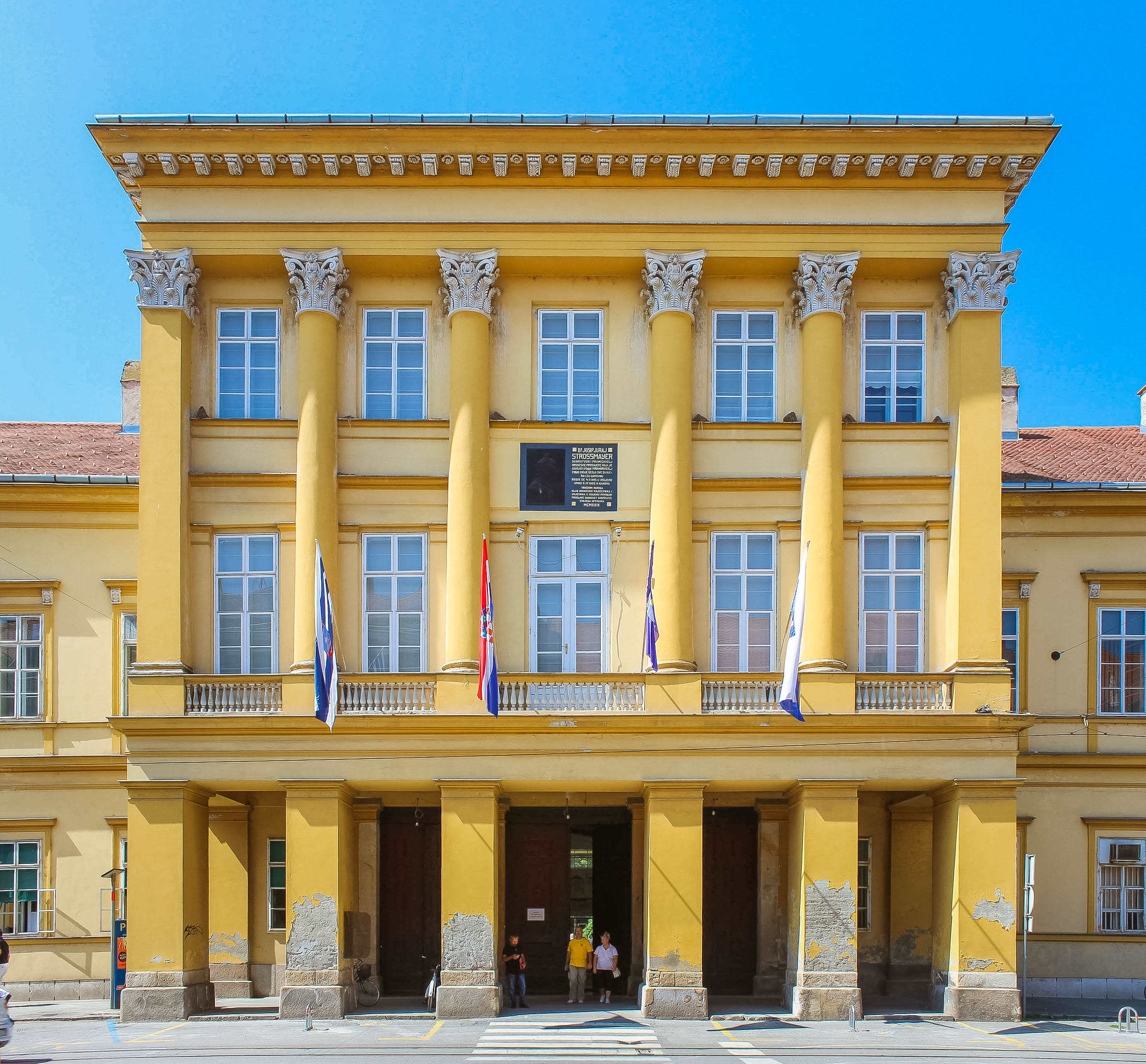 Building